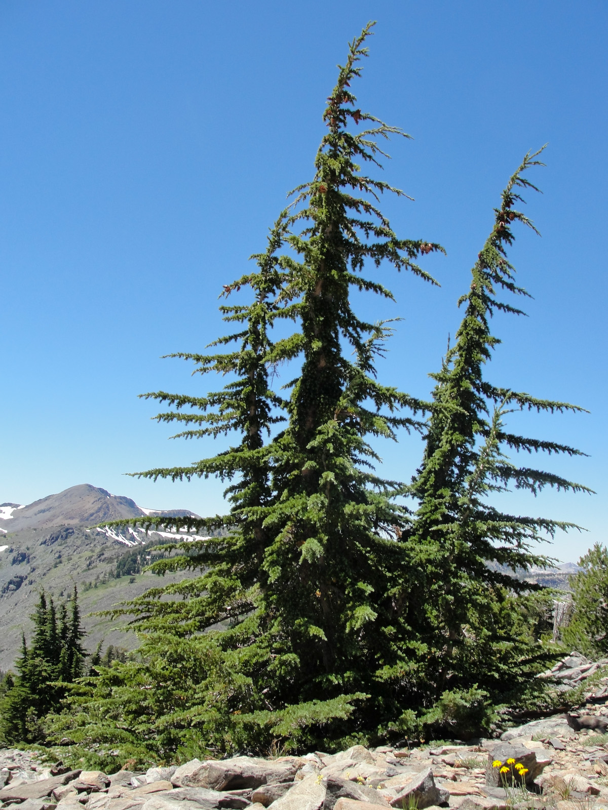 California Mountain Hemlock Tsuga mertensiana subsp. grandicona on Mount Tallac Trail, Desolation Wilderness, California.